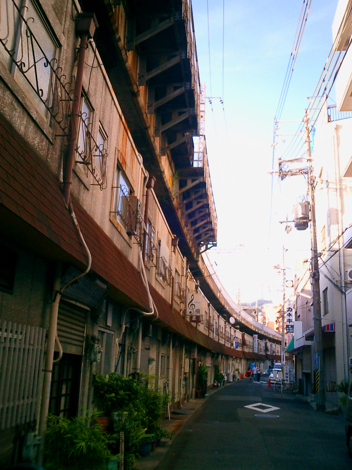 Shops beneath the elevated section of JR West Tokaido Main Line between Kobe and Sannomiya Stations, in Motomachi, Kobe.